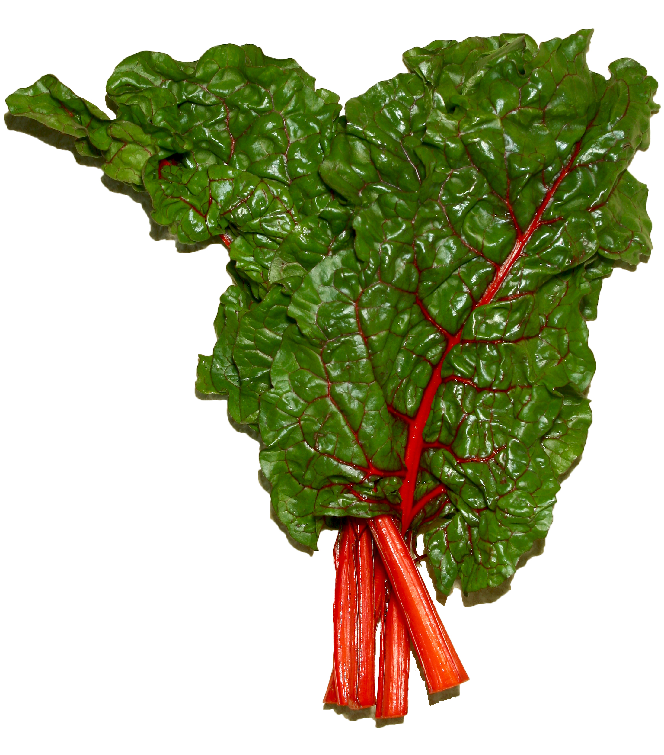 red chard